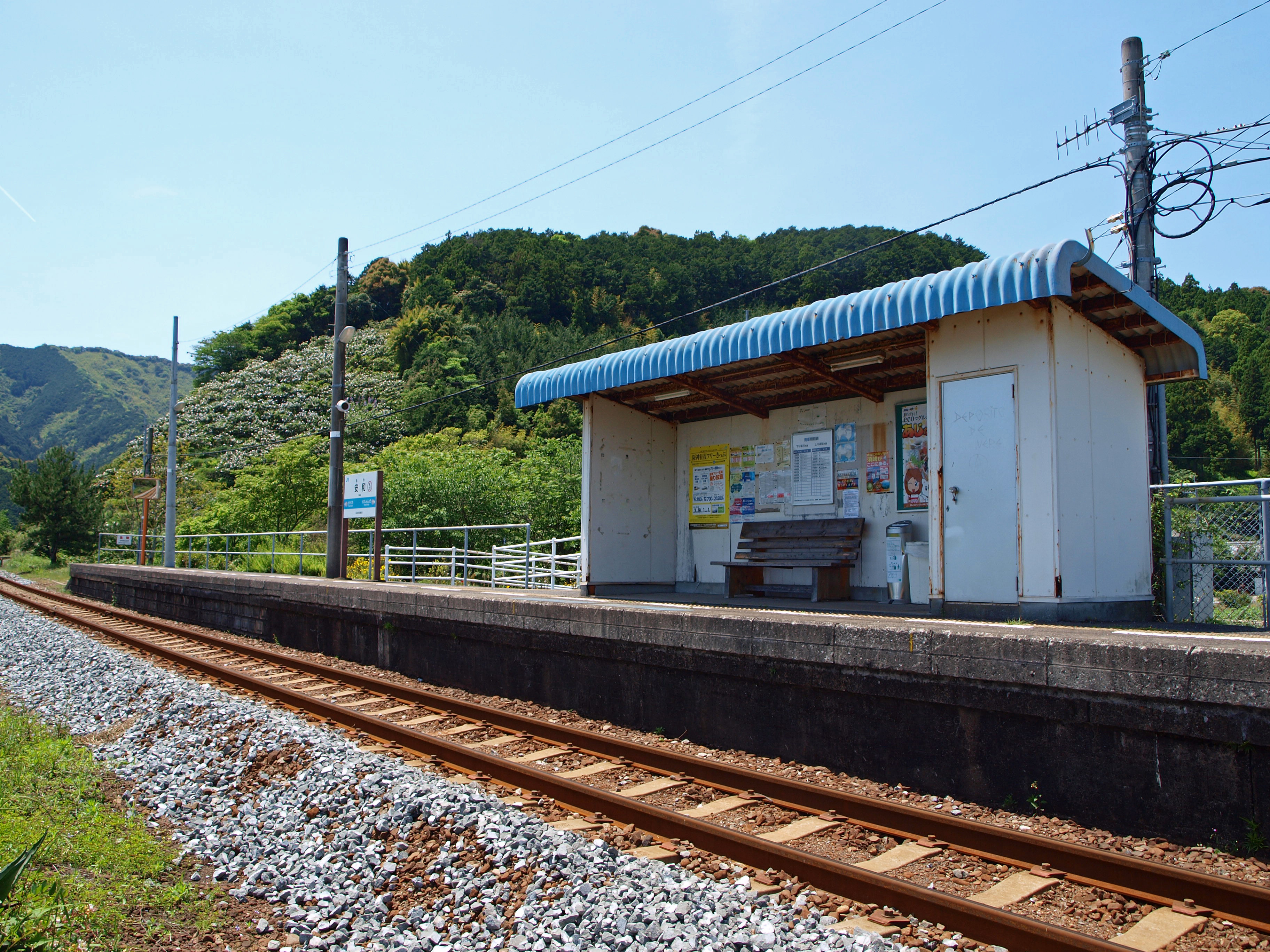 Awa station, Dosan-line, JR Shikoku, Japan